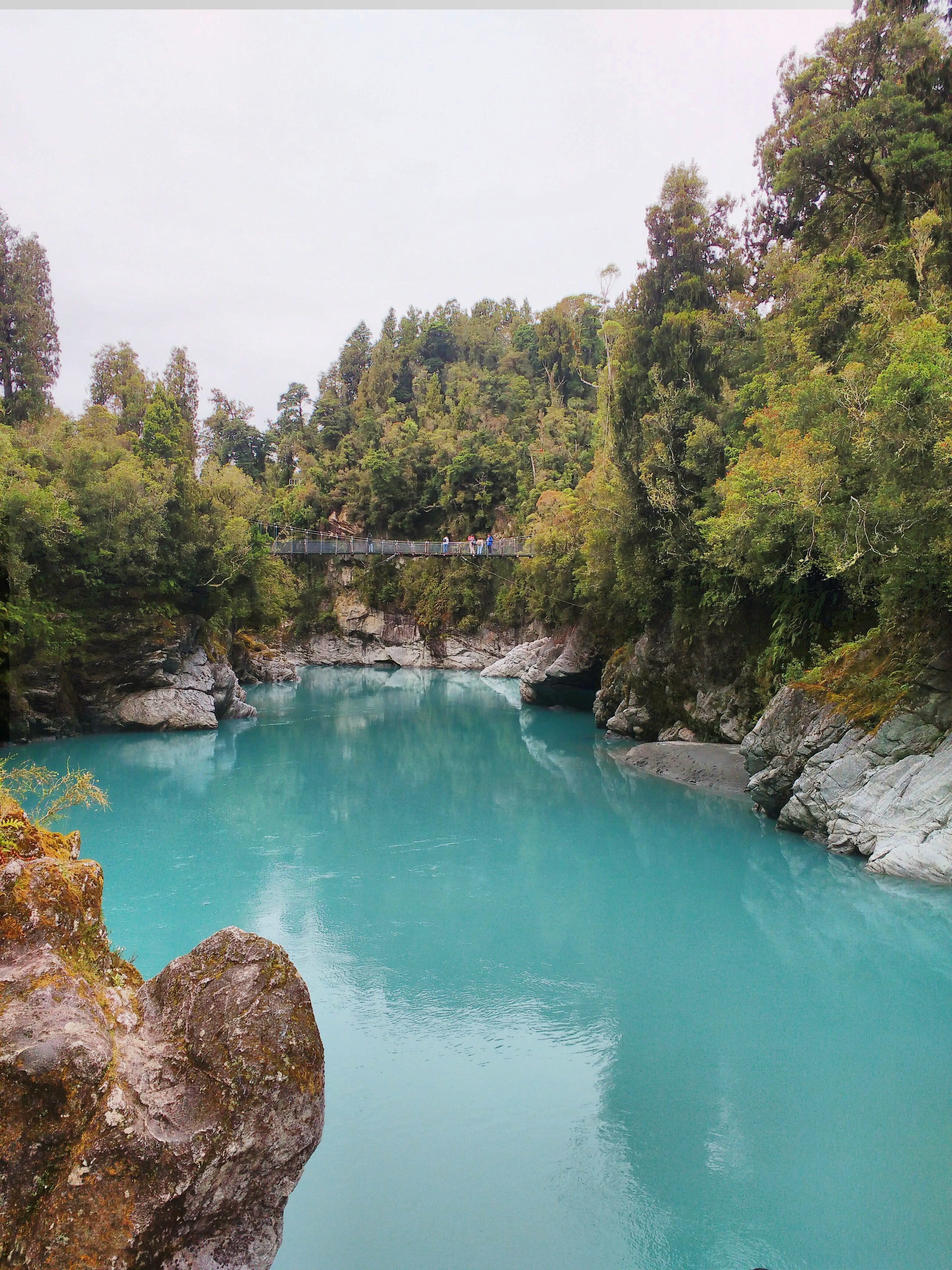 Hokitika Gorge, with swing bridge in the background. Shows the bright blue water.